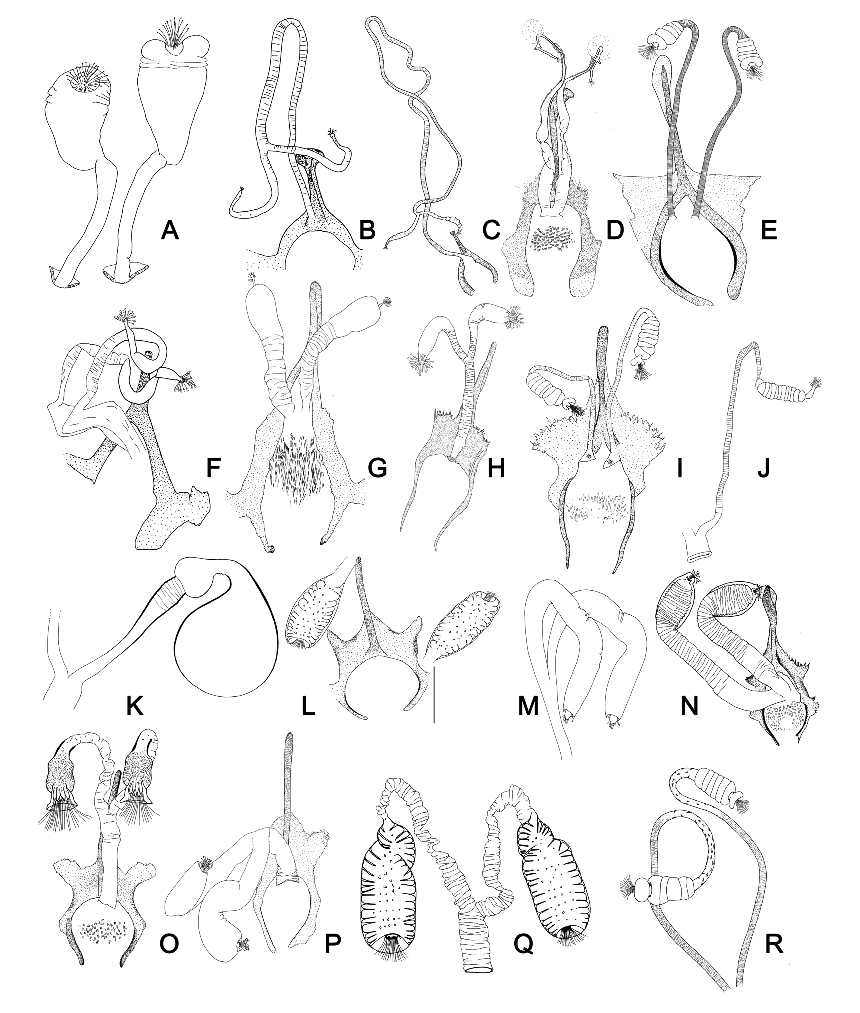 Figure 20 of paper Spermathecae and genital fork aspects of Phlebotominae. (A) Australophlebotomus notteghemae; (B) Chinius eunicegalatiae; (C) Chinius samarensis; (D) Phlebotomus (Madaphlebotomus) vincenti; (E) Phlebotomus (Paraphlebotomus) sergenti; (F) Idiophlebotomus padillarum; (G) Parvidens heishi; (H) Phlebotomus (Euphlebotomus) barguesae; (I) Phlebotomus (Paraphlebotomus) chabaudi; (J) Phlebotomus (Larroussius) major; (K) Spelaeomyia moucheti; (L) Sergentomyia (Rondanomyia) goodmani comorensis; (M) Sergentomyia hivernus; (N) Phlebotomus (Transphlebotomus) economidesi; (O) Sergentomyia (Vattieromyia) namo; (P) Sergentomyia (Sergentomyia) phadangensis; (Q) Sergentomyia (Ron.) goodmani; (R) Phlebotomus (Paraphlebotomus) mireillae.